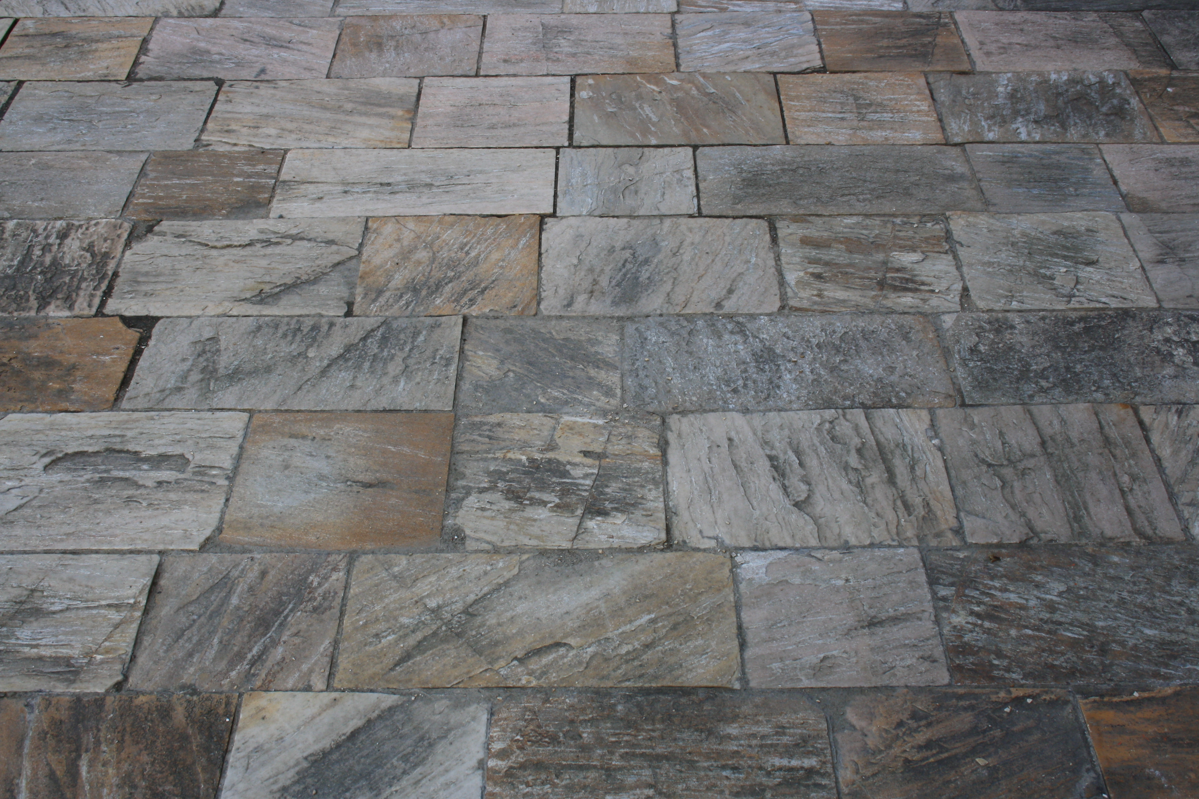 Stone floor in France